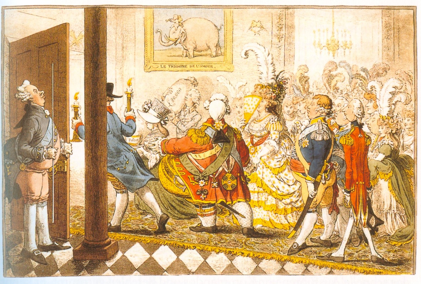 The Bridal Night